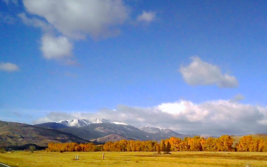 Pintler mountains near Anaconda, Montana